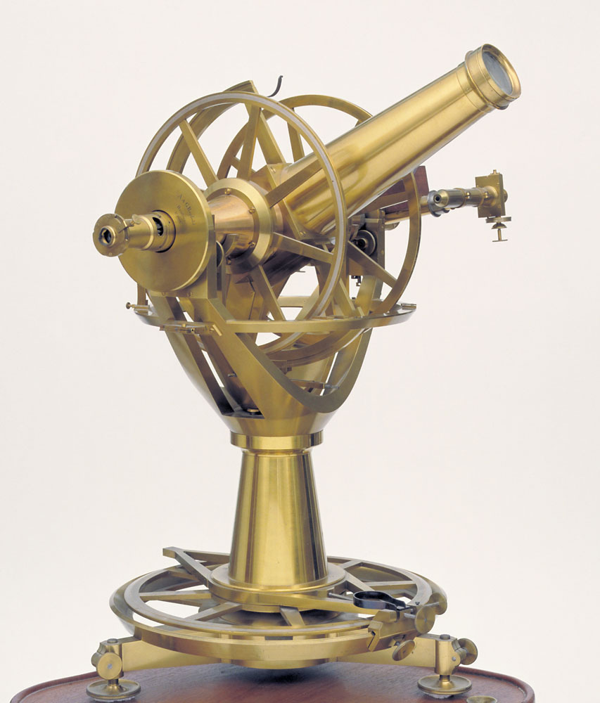 AuthorRepsold firmDescription